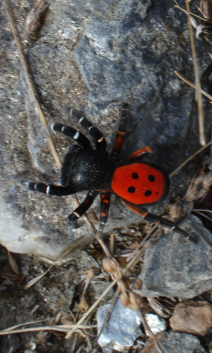 Eresus kollari (male)